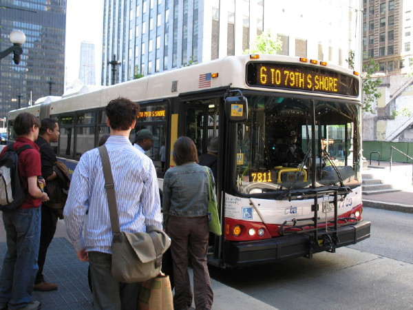 Monika Bonckute is the author of this picture.